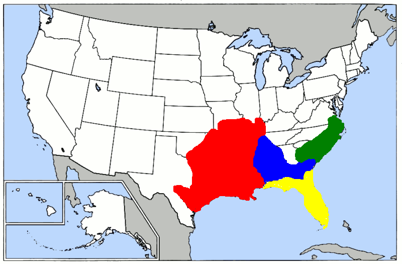 Area of the Cottonmouth (Agkistrodon piscivorus); Made by user Accipiter (Rainer Altenkamp)